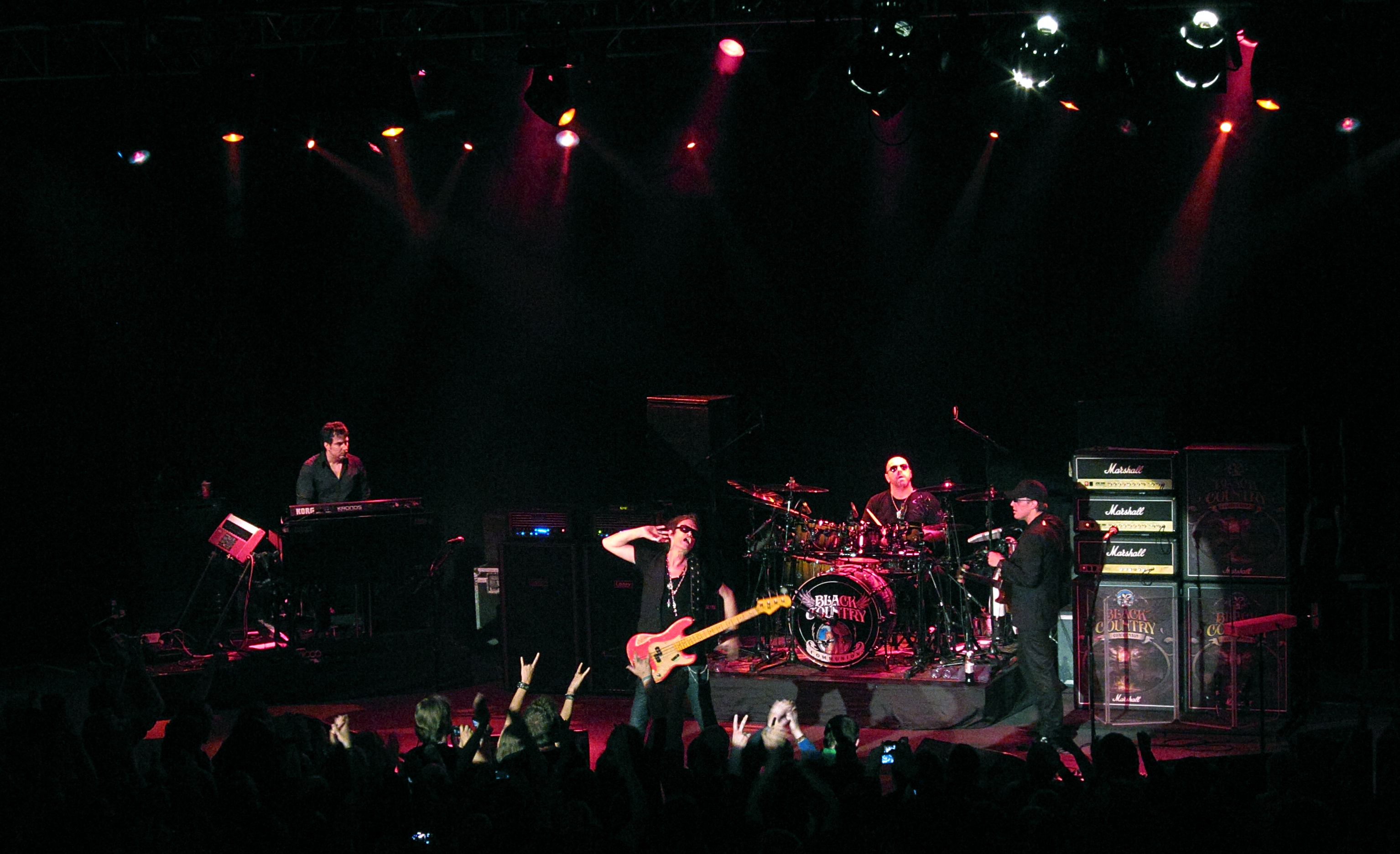 Black Country Communion onstage at the Vicar Street in Dublin, Ireland on July 21, 2011.